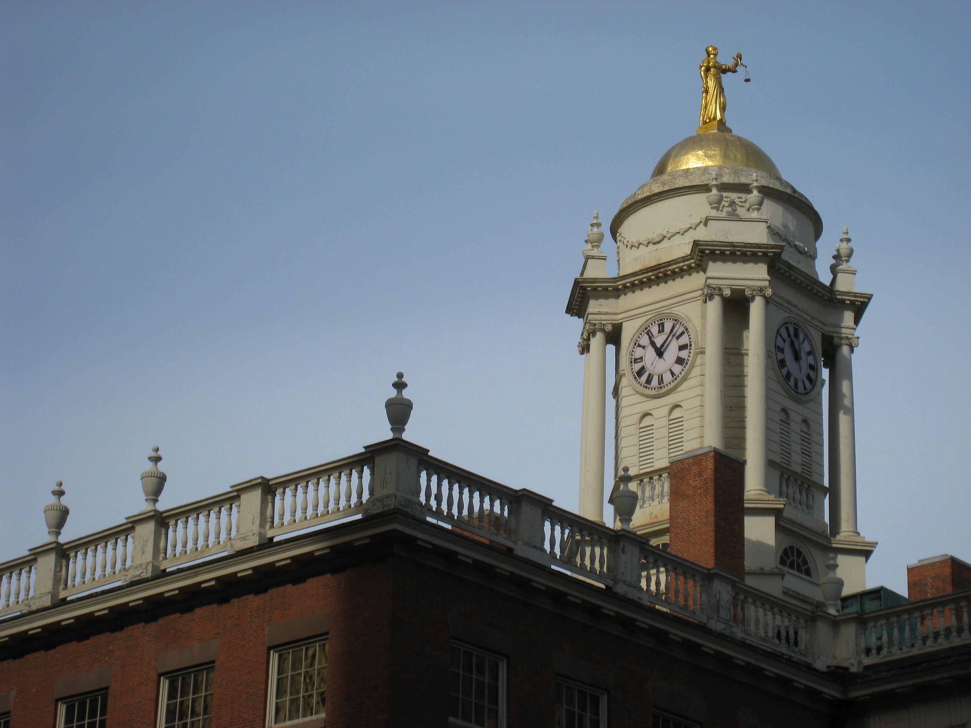 Detail - Old State House, Hartford, Connecticut, USA. Charles Bulfinch (1763-1844), architect. This building was completed in 1796.